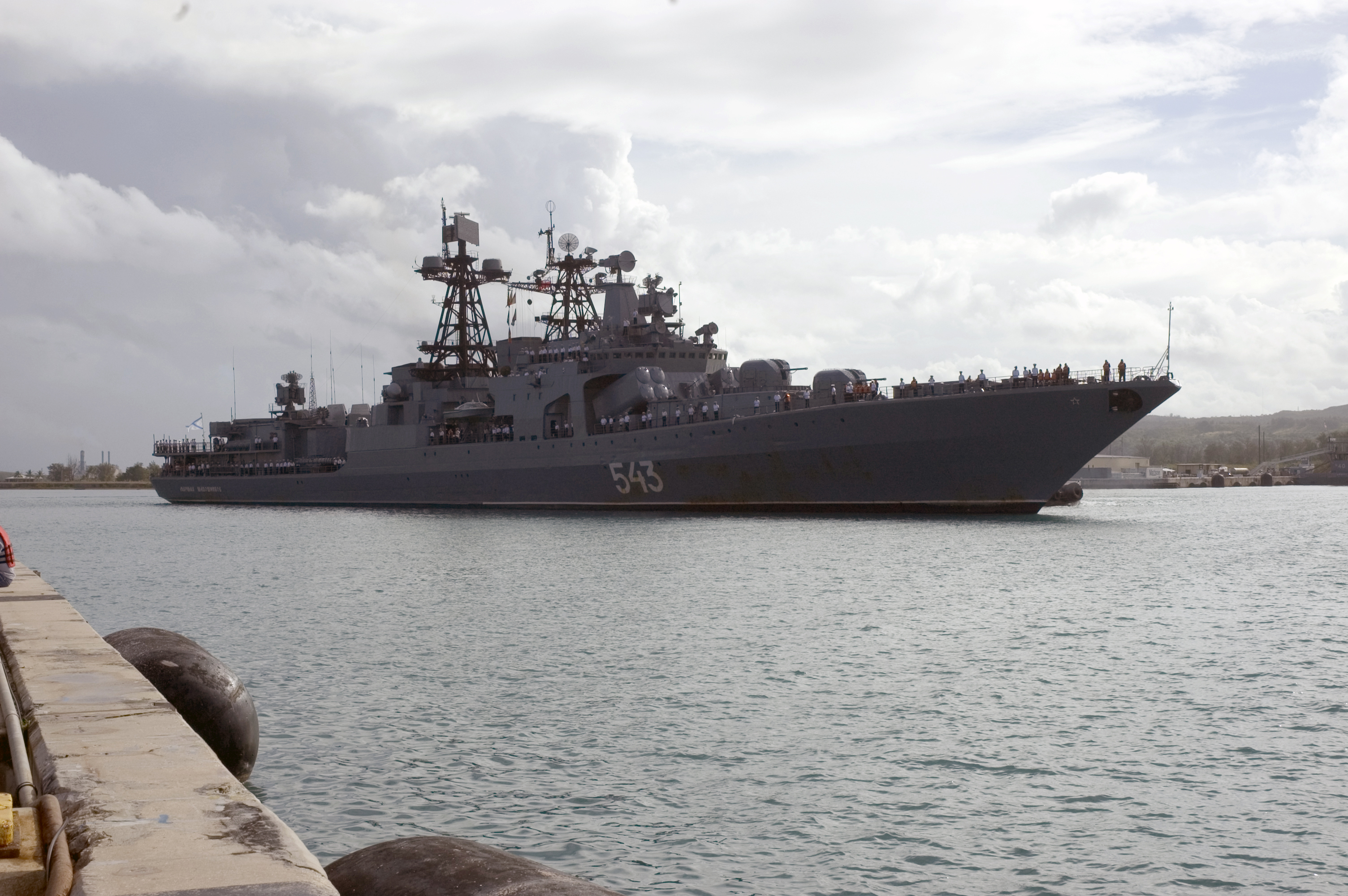 The Russian Federated Navy ship (RFN) Marshal Shaposhnikov, navigates through Apra Harbor.